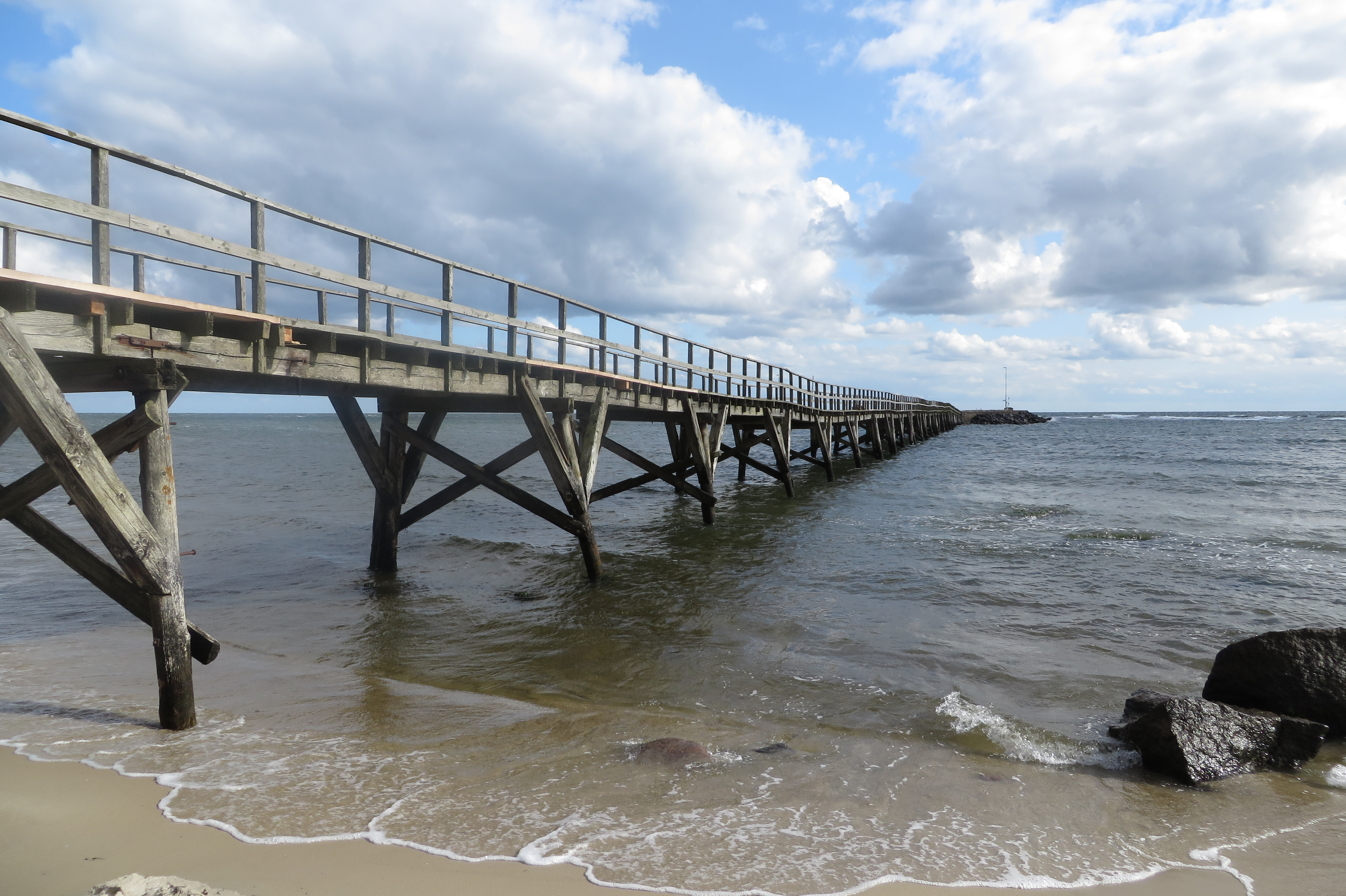 Arnager, Bornholm